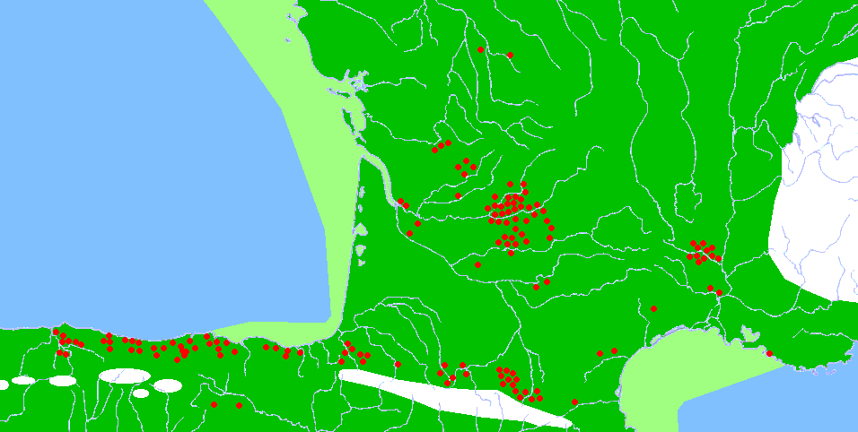 Description: Map of the Franco-Cantabrian archaeological region (Upper Paleolithic), showing: Main caves with mural art (red dots) Approximate extension of permanent ice (white) Approximate extension of now submerged lands (light green)